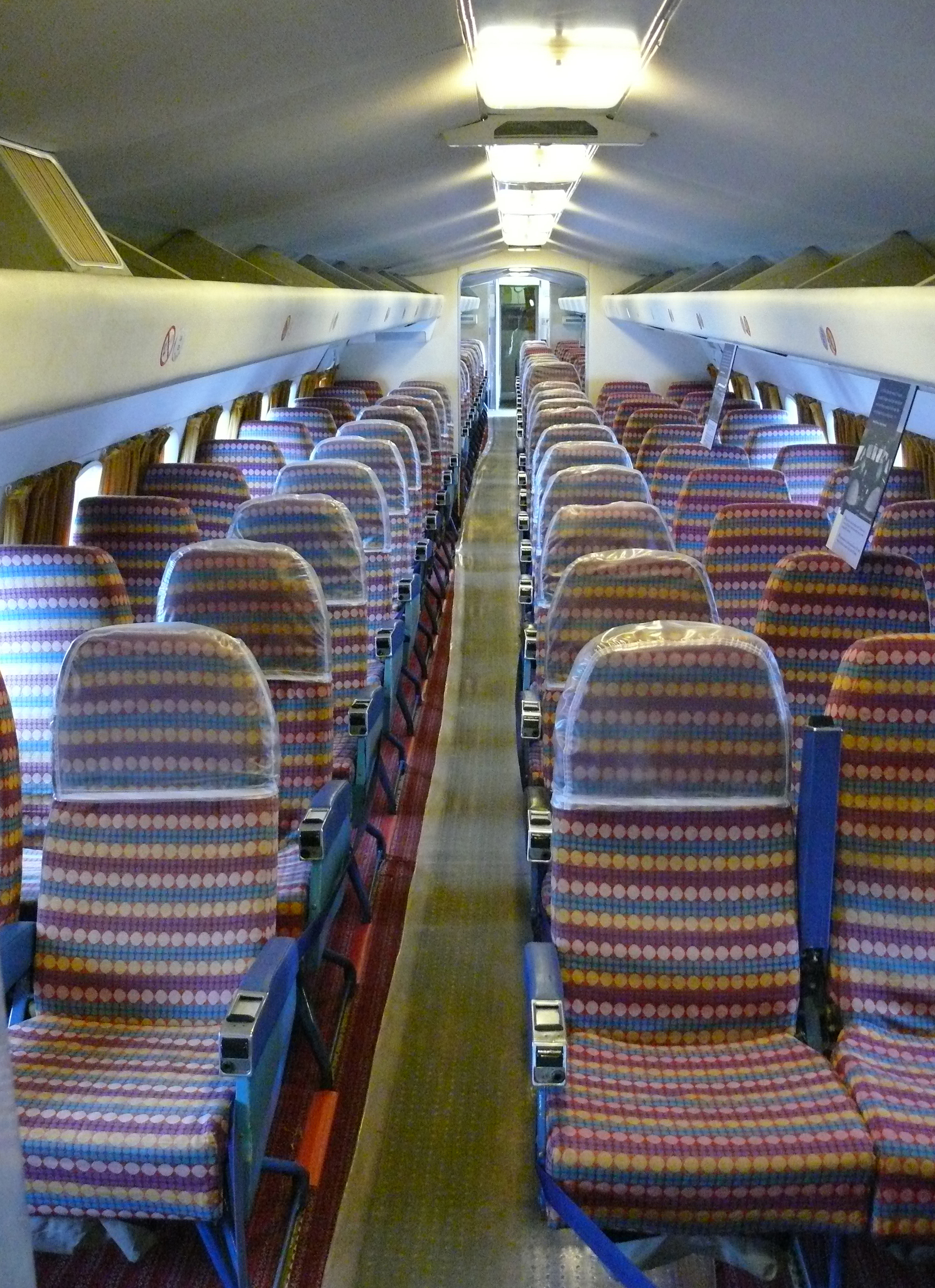 Interior of the de Havilland DH106 Comet 4c (G-BDIX), the world's first commercial jet airliner to reach production, in the National Museum of Flight in East Fortune, East Lothian, Scotland. G-BDIX was the last Comet to fly in commercial colours when it flew from Lasham, Hampshire to East Fortune in September 1981. Museum Number T.1981.90